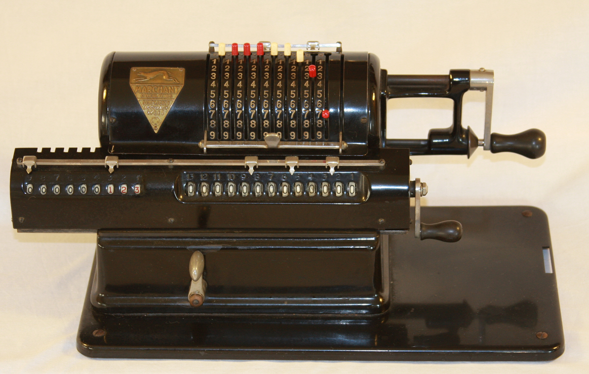 Marchant XLA, calculator manufactured since 1923 and based on "adapting segments" (a patent by Carl Friden) not on Odhner's pinwheel